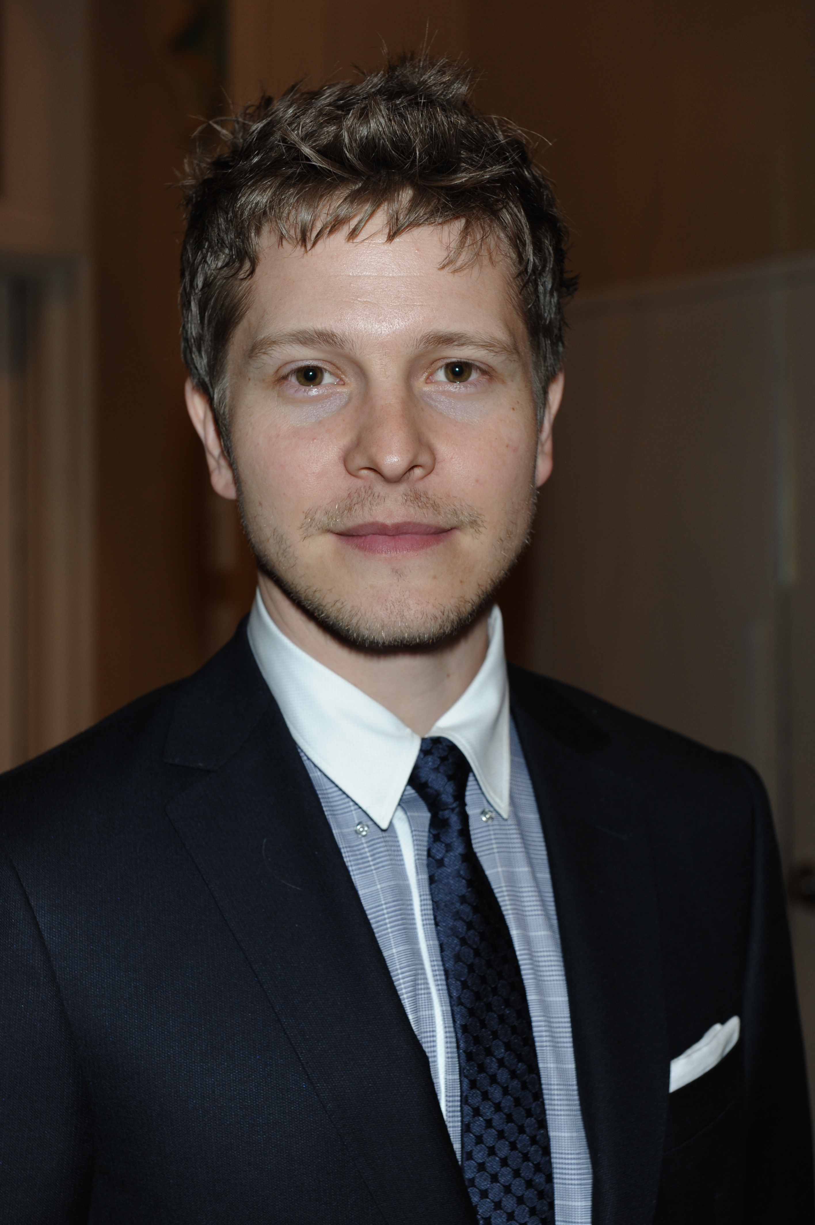 PHOTO CREDIT: ANDERS KRUSBERG / PEABODY AWARDS 70th Annual Peabody Awards Luncheon Waldorf=Astoria Hotel May 23, 2011